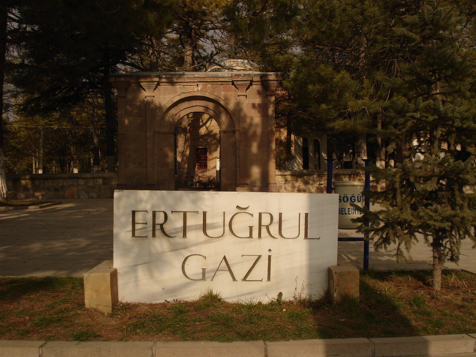 The entry of the Ertuğrul Gazi's grave in Söğüt